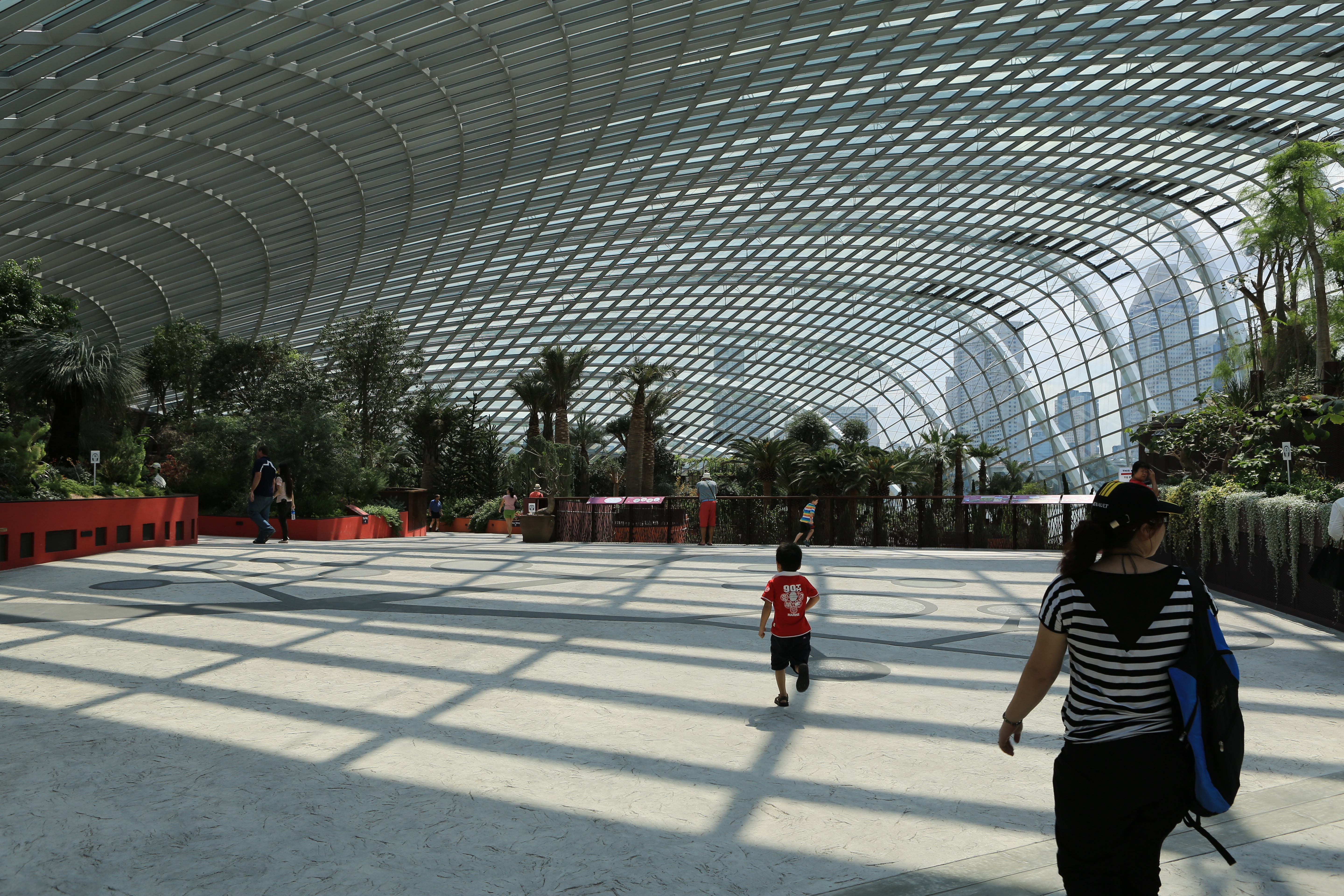 Inside the Flower Dome at Gardens by the Bay, Singapore. This huge area – easily a couple of acres – is chilled to a temperate 18°C. The air-conditioning bills must be gargantuan.